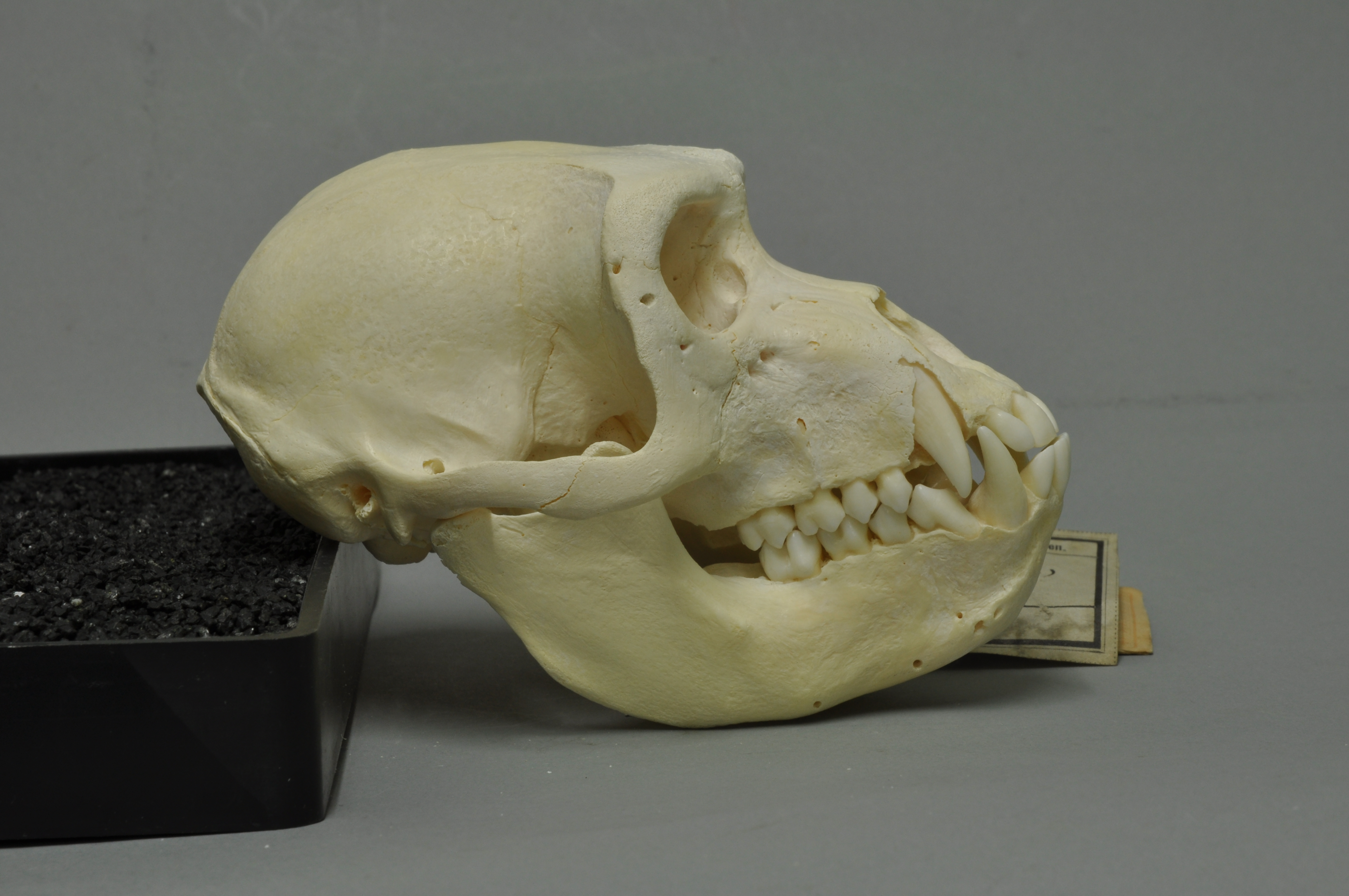 Barbary macaque Macaca sylvanus , skull, Coll. Museum Wiesbaden